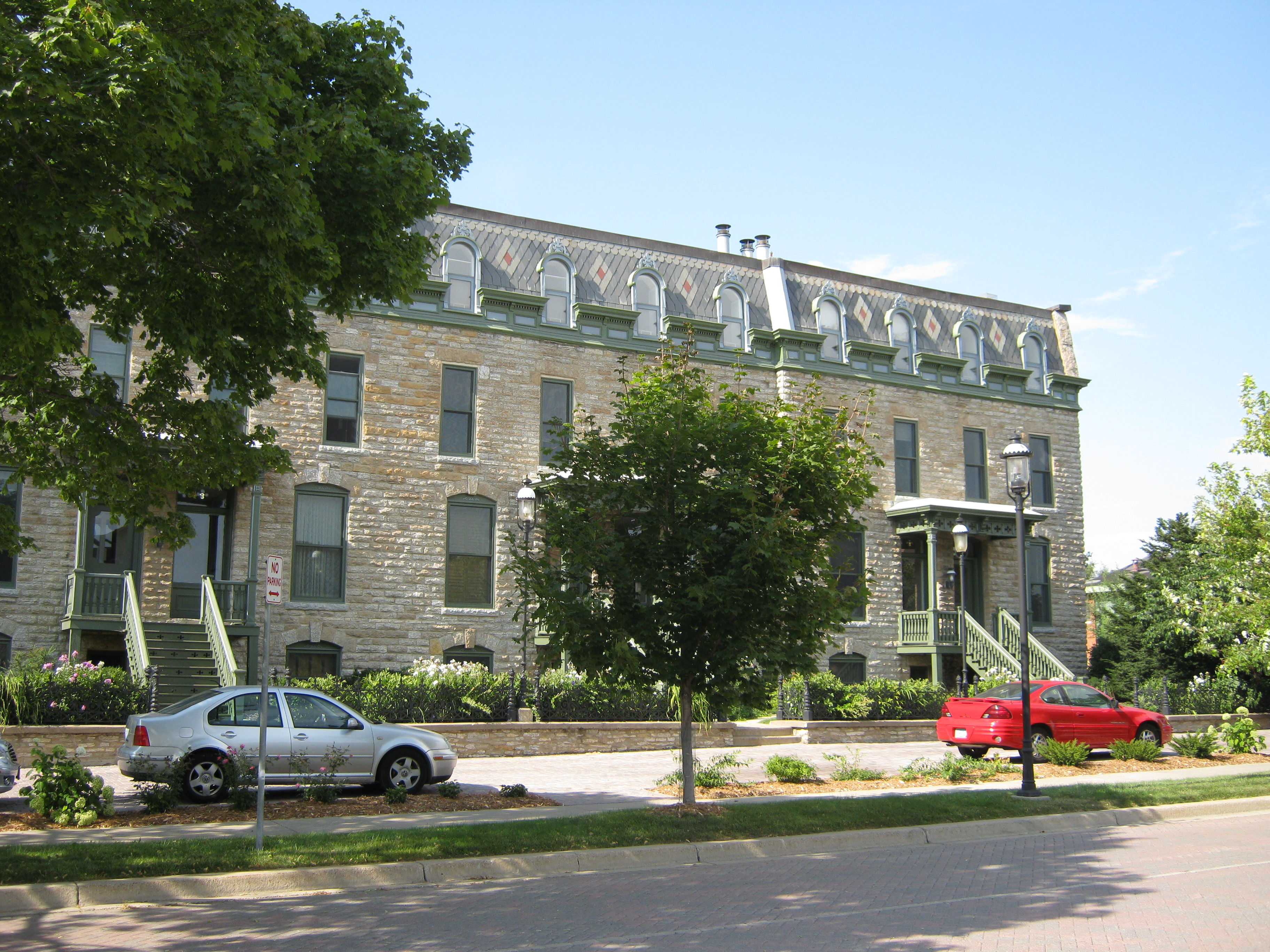 The Grove Street Flats on Nicollet Island in Minneapolis, Minnesota